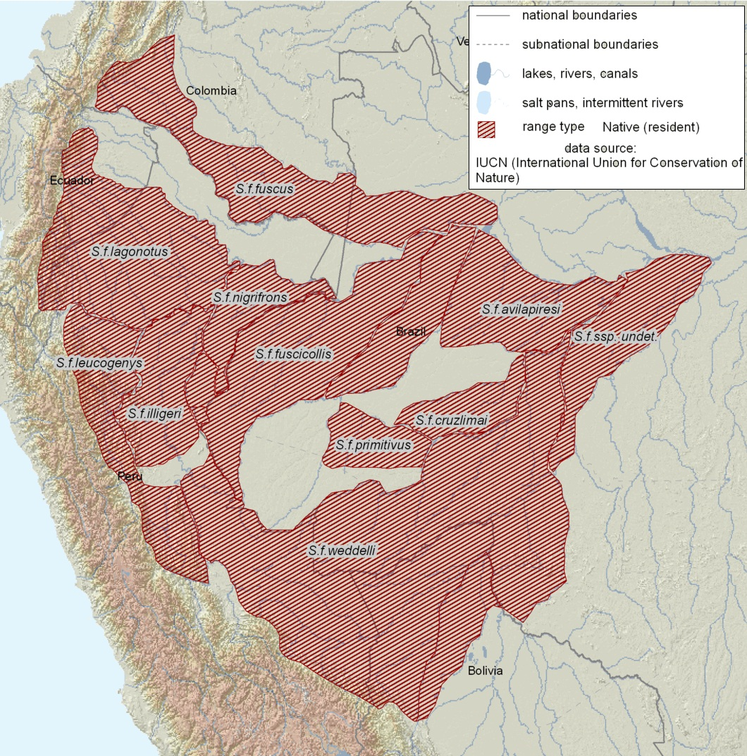 Areal geografico de Saguinus fuscicollis